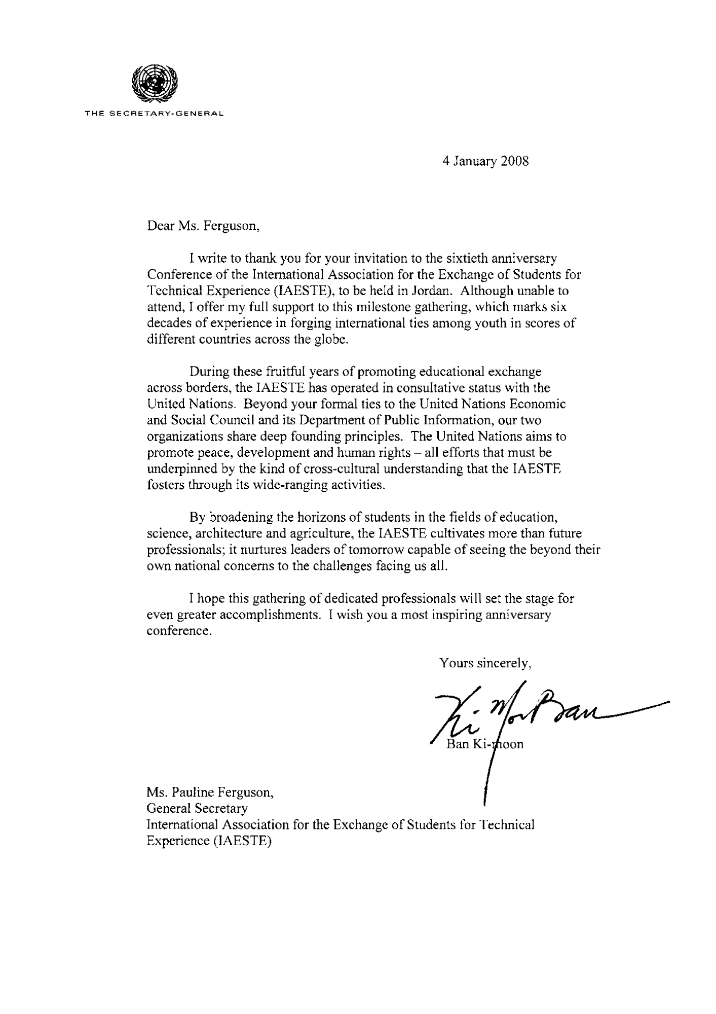 Letter from UN General Secretary Ban Ki-moon to IAESTE from 2008.